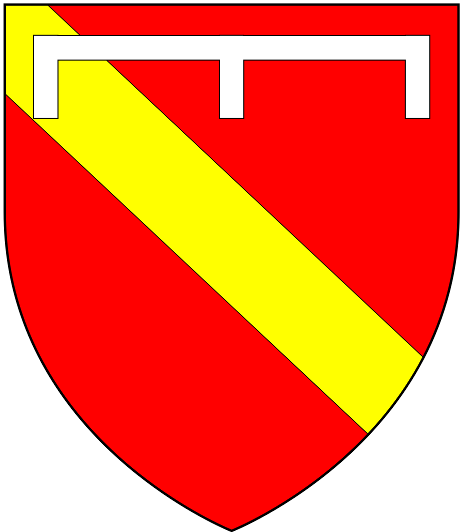 Arms of Barnstaple Priory, Devon: Gules, a bend or in chief a label of three points argent (Encyclopædia Heraldica: Or, Complete Dictionary of Heraldry By William Berry[1])